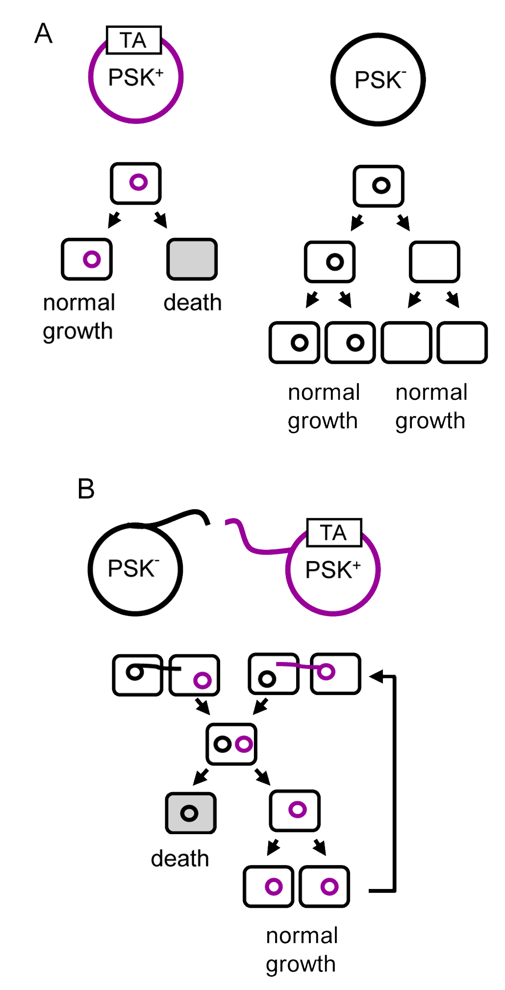 Comparing Vertical and Horizontal gene transfer of toxin-antitoxin systems.